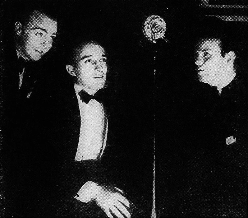 Portrait of The Rhythm Boys taken before 1934 (circa 1929-1931)